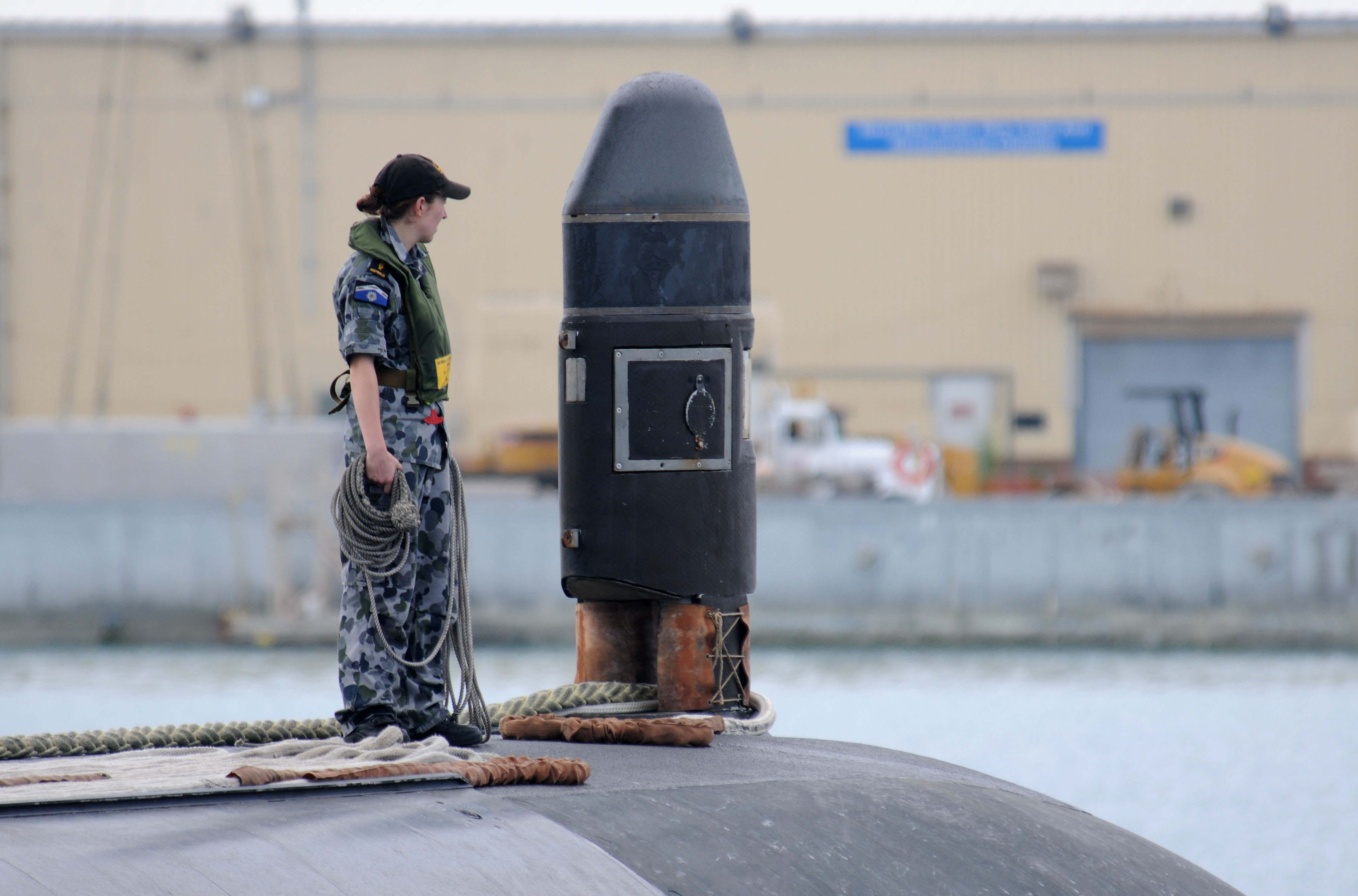 130905-N-LS794-006 SANTA RITA, Guam (Sept. 6, 2013) An Australian navy submariner aboard HMAS Waller (SSG 75) prepares to throw a receiving line as the submarine pulls into Apra Harbor, Guam, for a port call. This is the first visit to Guam by an Australian navy submarine since 2008. (U.S. Navy photo by Mass Communication Specialist 1st Class Jeffrey Jay Price/Released)